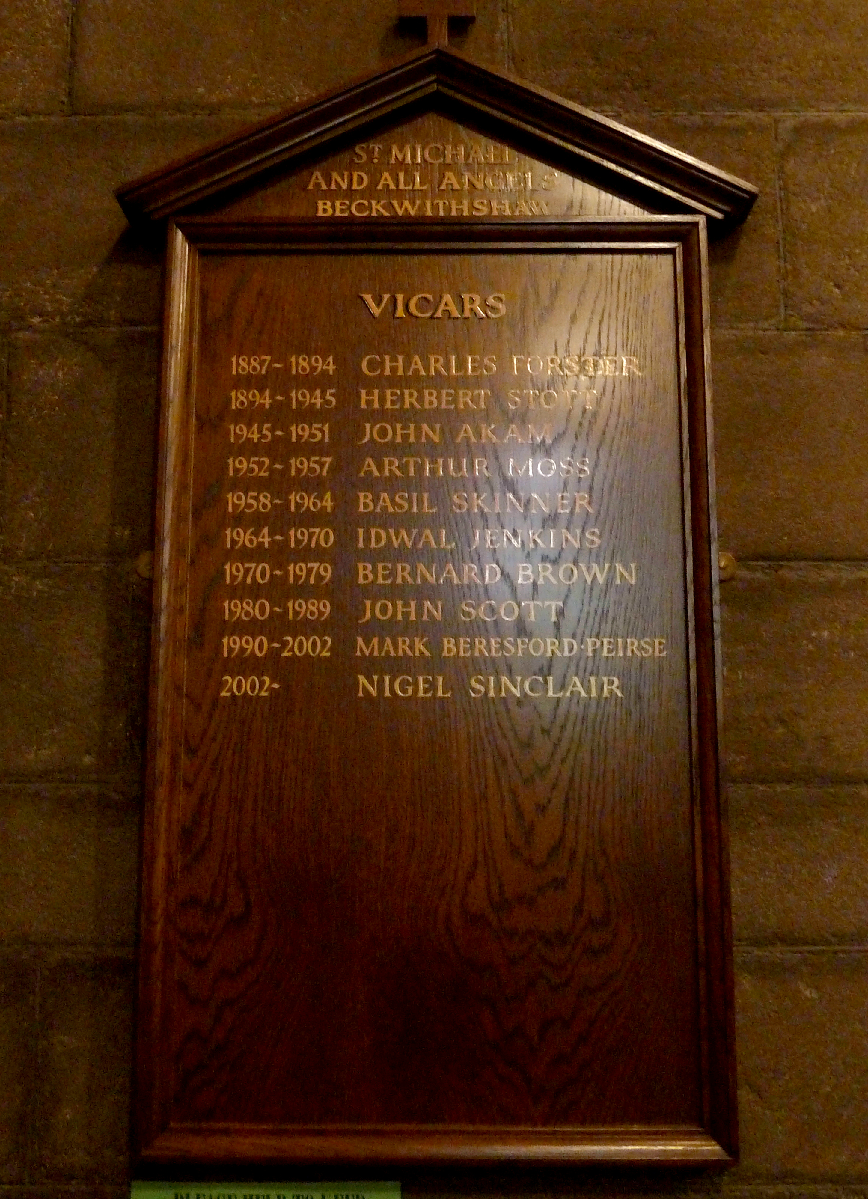 St Michael and All Angels Church, Beckwithshaw, North Yorkshire, England. Plaque listing all former vicars of this church.